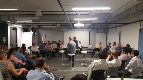 Agile KPIs and Agile Testing